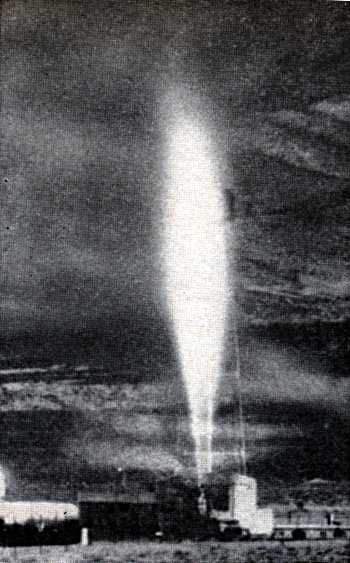 The NRX A-1 nuclear thermal engine being test fired at Area 25 (Nuclear Rocket Development Station in Jackass Flats) in the Nevada Test Site.